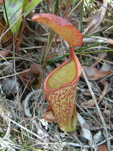 Nepenthes maxima from Wamena, Western New Guinea (~1700 m asl)